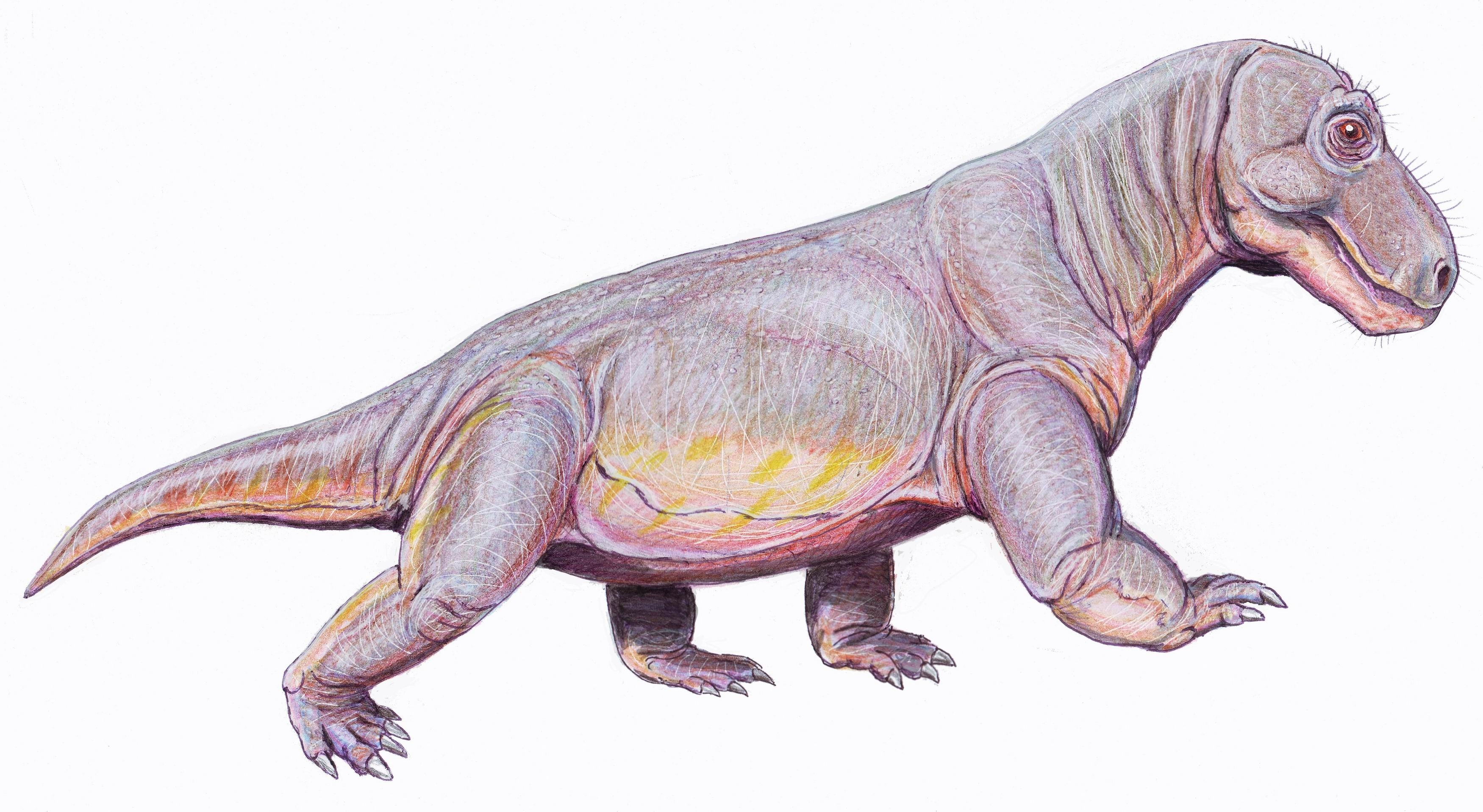 Speculative reconstruction of Rhopalodontid, based mostly on Parabradysaurus.